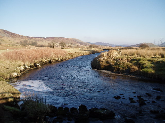 Afon Tryweryn. The Afon Trweryn approx 2.5km west of Llyn Celyn